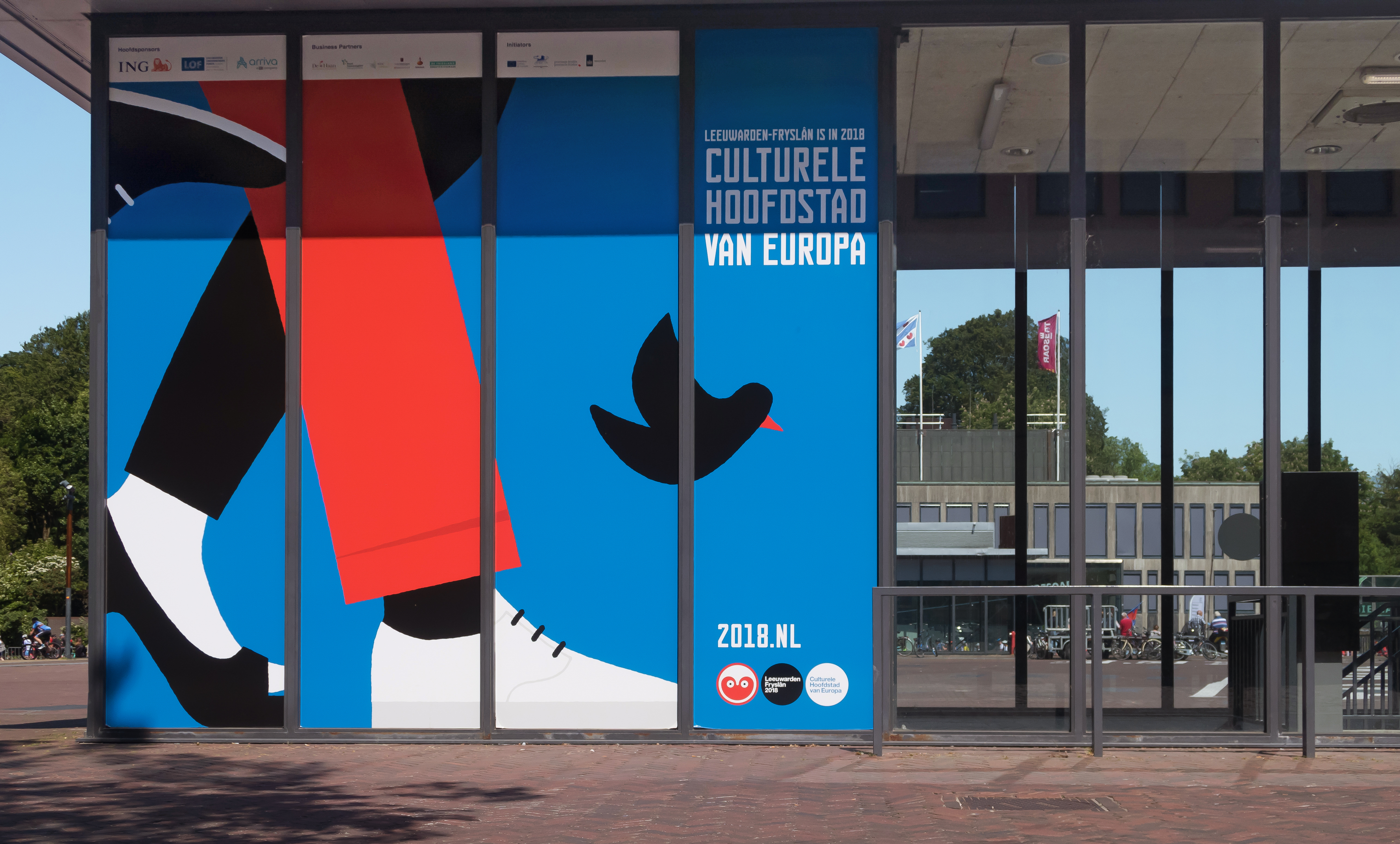 Leeuwarden, Leeuwarden- Fryslân is the European Capital of Culture in 2018